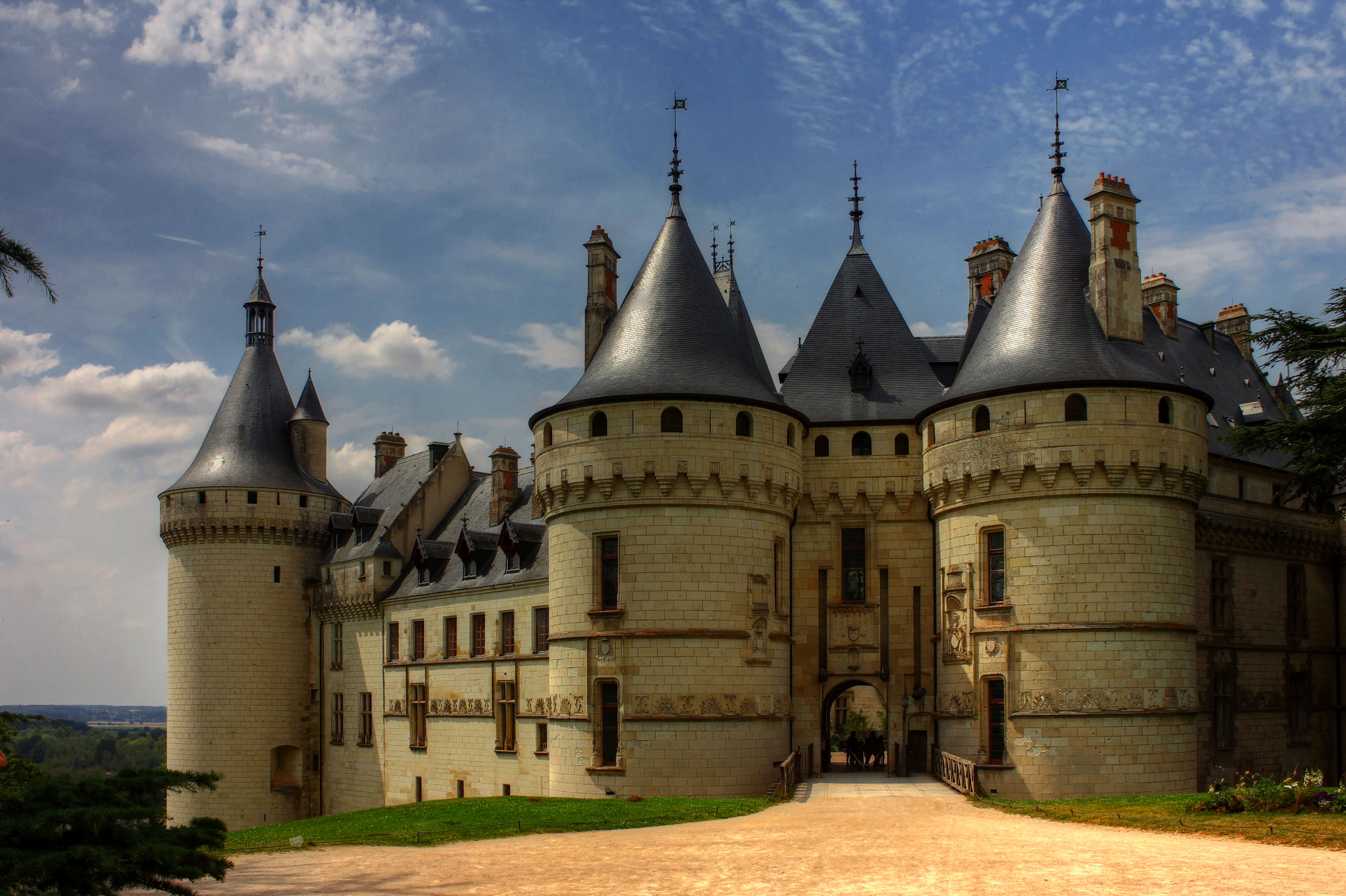 Loire Valley / France .